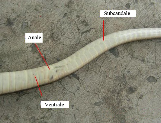 Ventral, anal, subcaudal scales on underside of a snake's body. (Photo 4) Original photo is of Buff-striped Keelback Amphiesma stolata Family Colubridae, Serpentes.